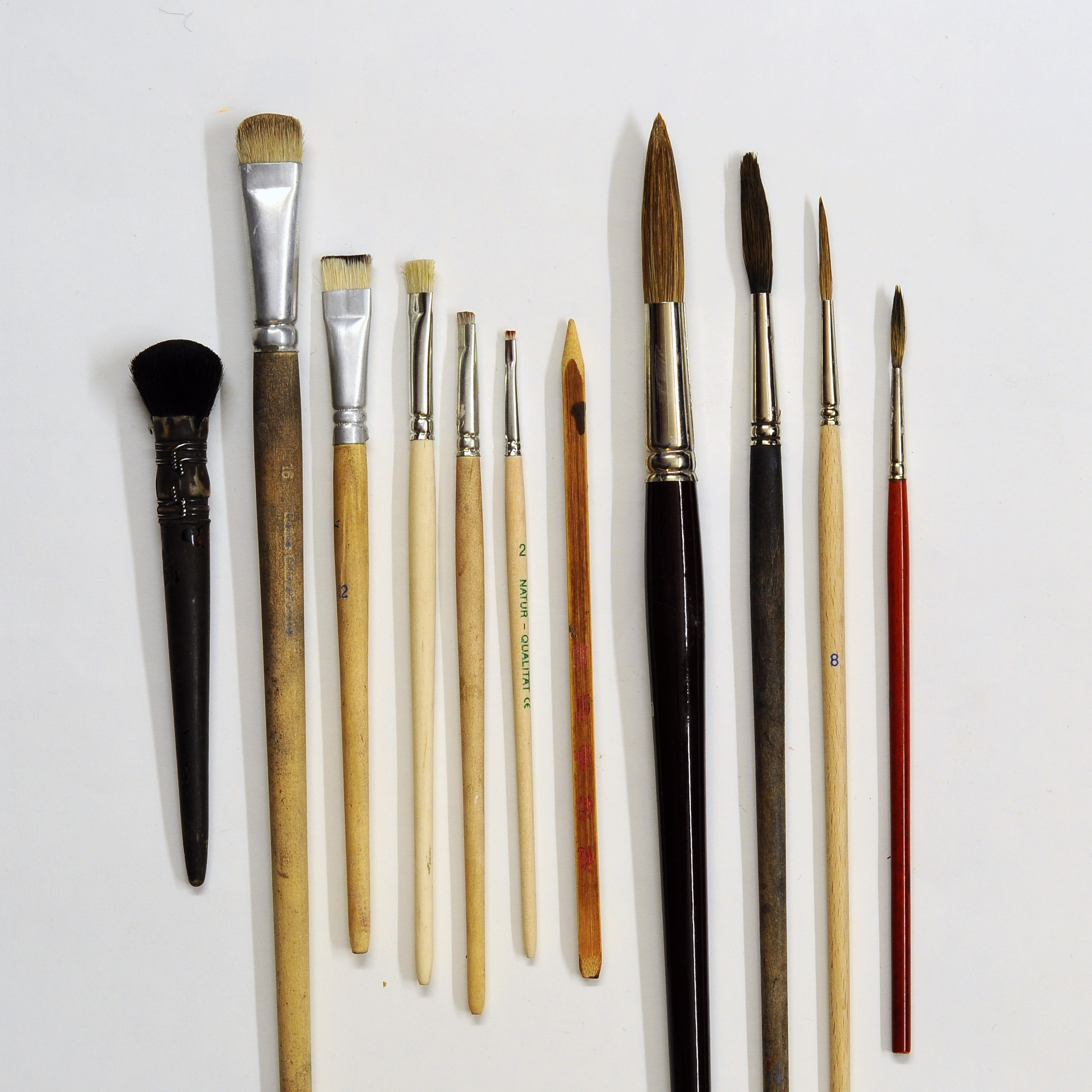 Various brushes for painting on glass